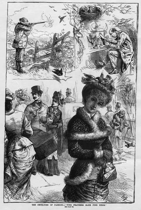 "The cruelties of fashion: fine feathers make fine birds". From Frank Leslie's Illustrated Newspaper (November 10, 1883), p. 184.